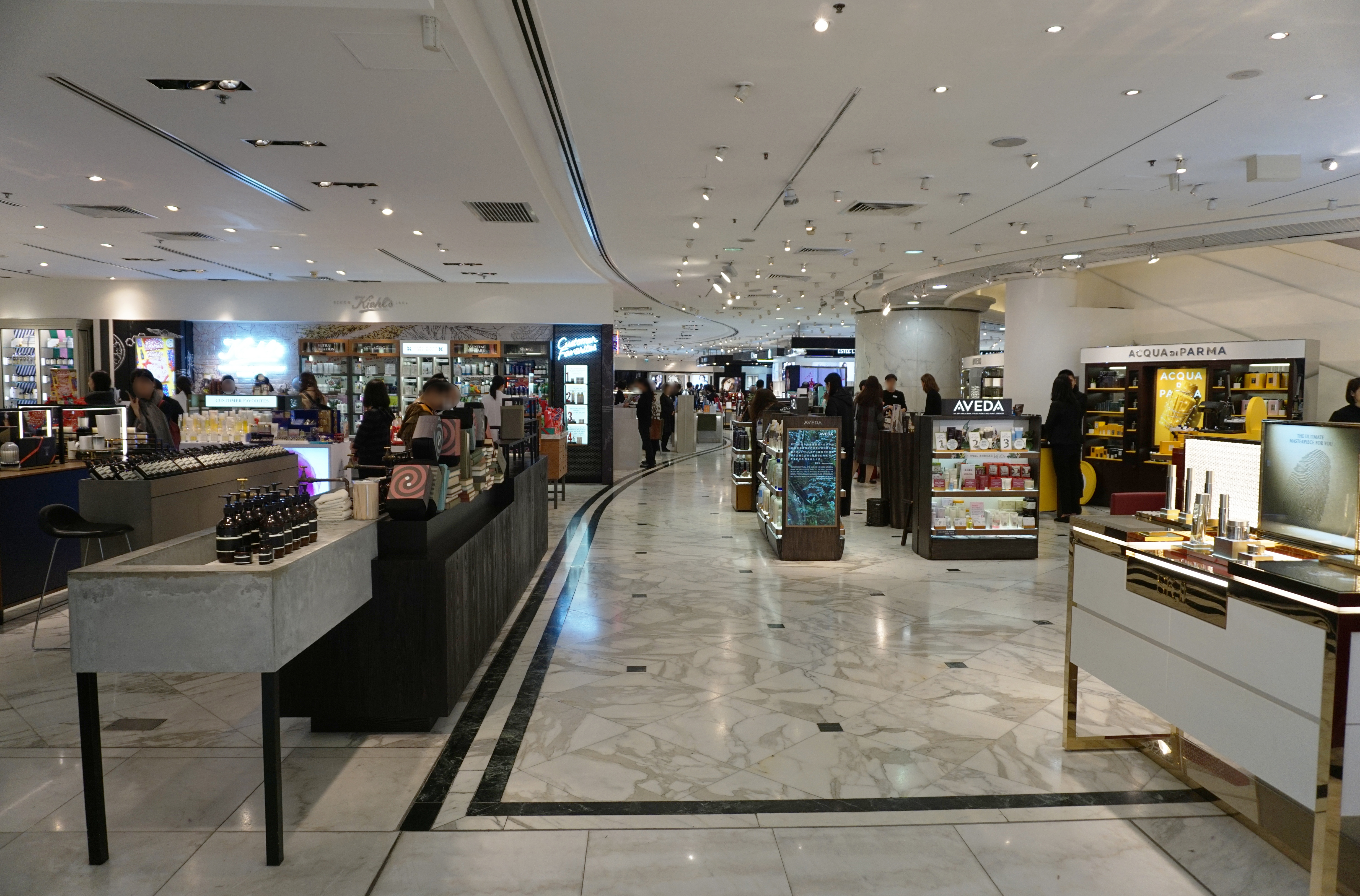 Times Square in Causeway Bay, Hong Kong.